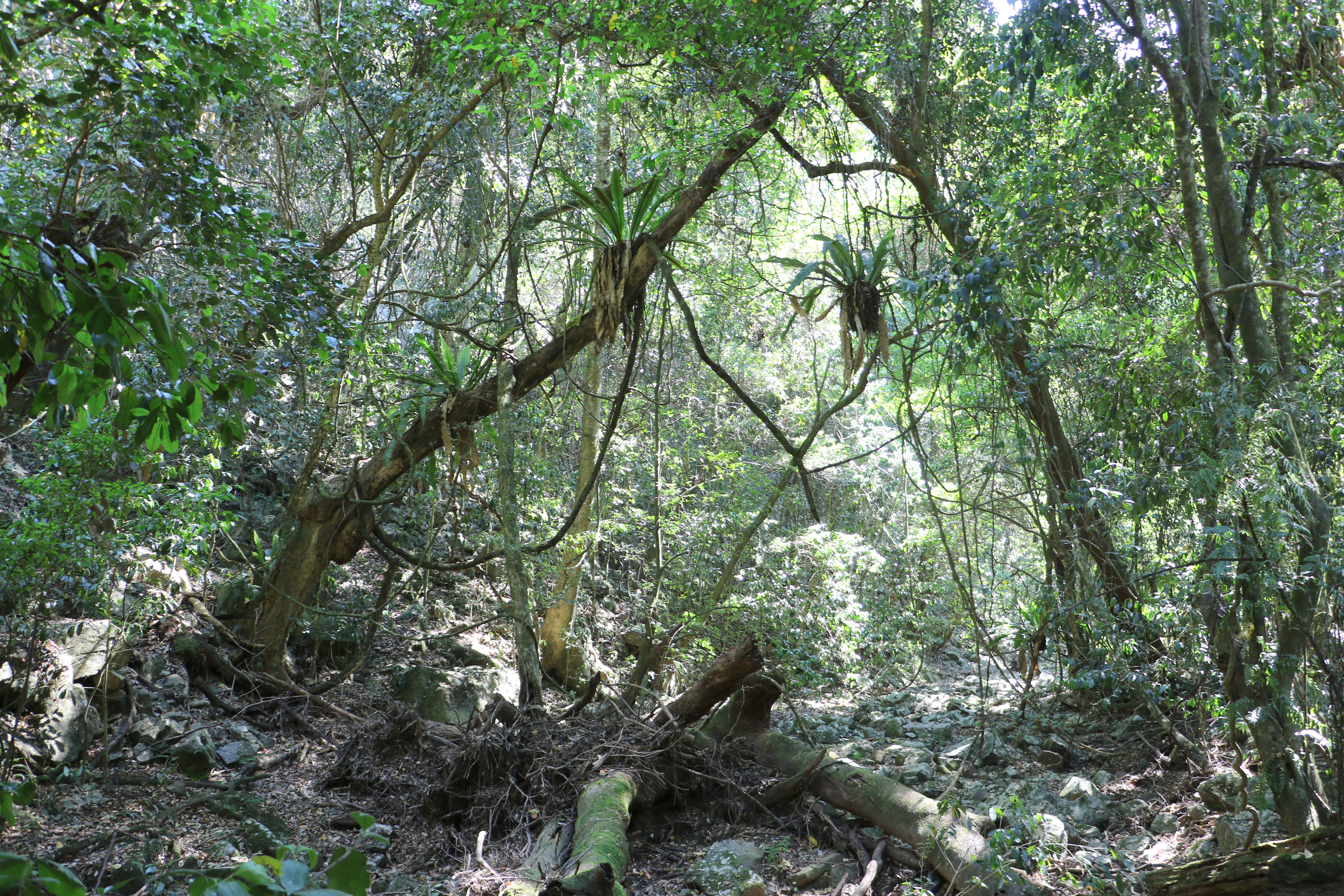 Birds Nest Fern (Asplenium australasicum) Yatteyattah Nature Reserve